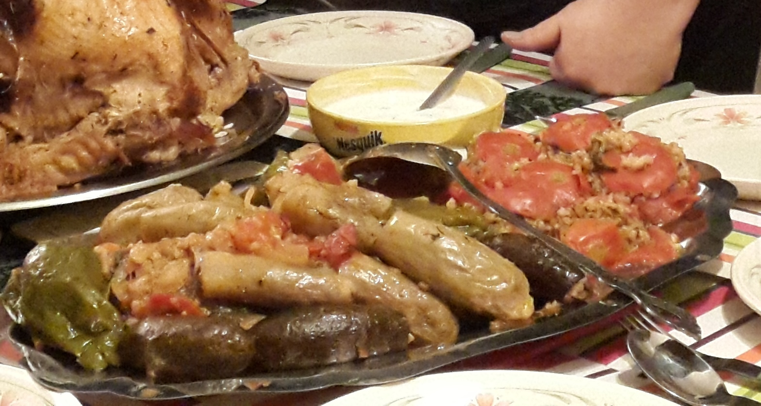 Egyptian Mahshy or Dolma is made with Vegetables stuffed with Rice and Herbs. Suitable vegetables include finger Aubergine, Tomato, Green Pepper, Zucchini, etc. This dish is also made in Turkey and other Mediterranean countries. Photo By Wael Nawara This is an image of food from Egypt